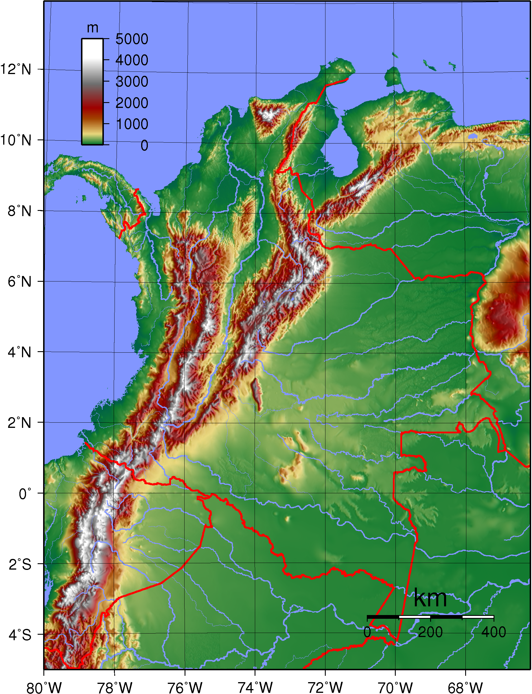 Topographic map of Colombia. Created with GMT from publicly released GLOBE data.[1]